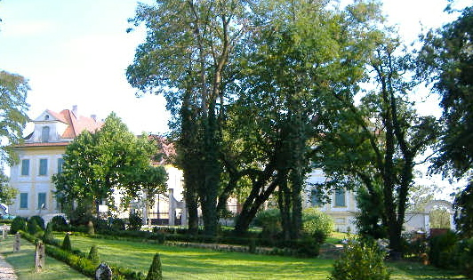 Bertoldsheim castle (municipality of Rennertshofen): view from the north